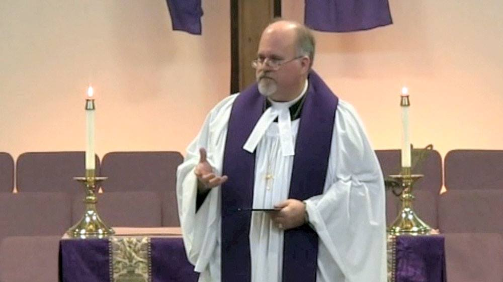 United Methodist Pastor, Dr. Gregory S. Neal, vested in cassock, surplice, stole, with preaching bands.